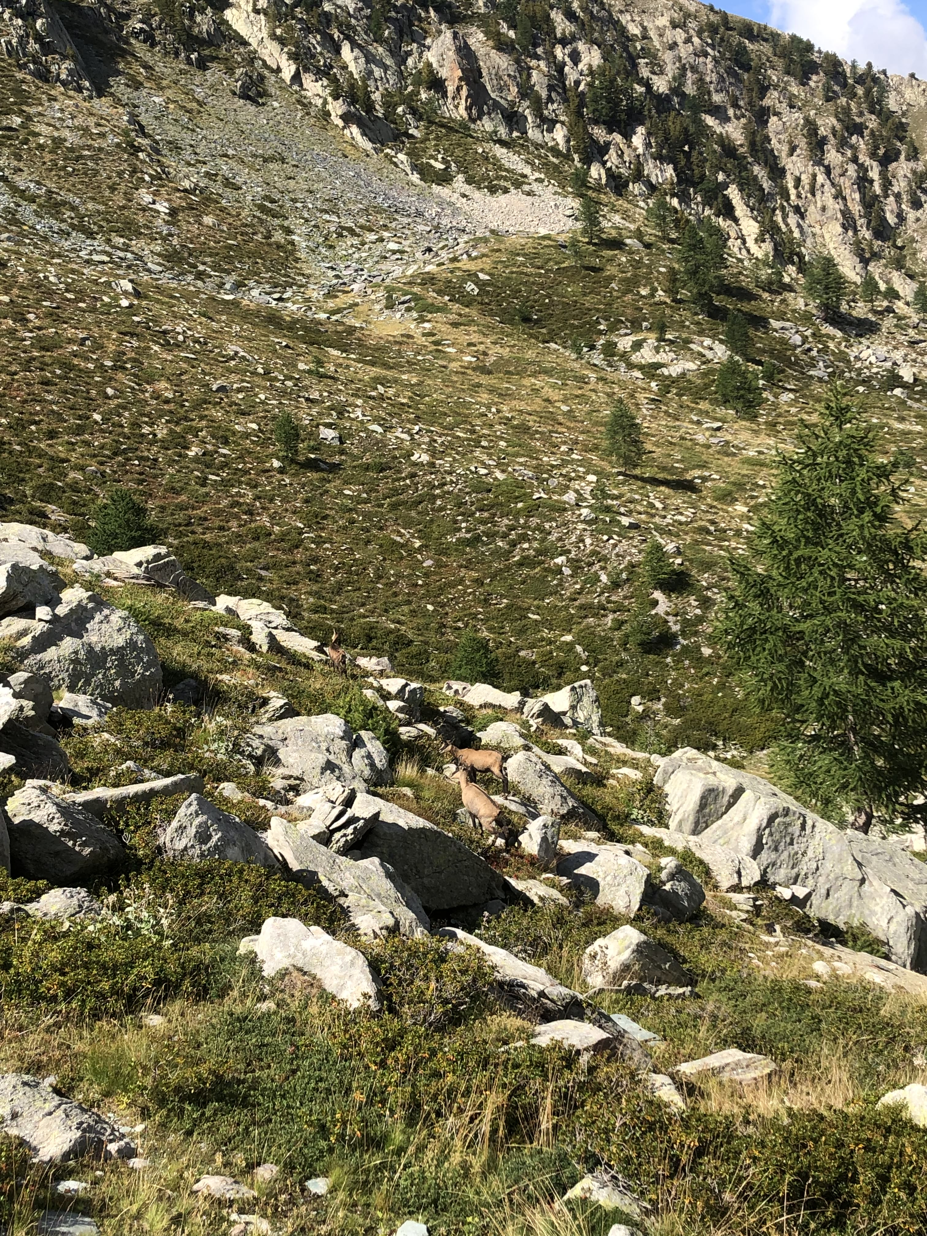 Mercantour fauna 1